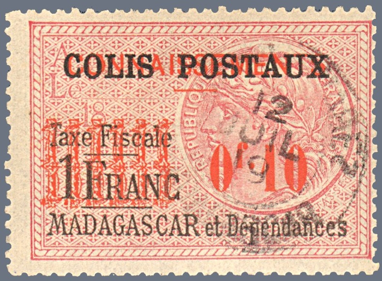 Madagascar, fiscal stamp for parcel tax. Provisional issue, Yvert & Tellier No. 2